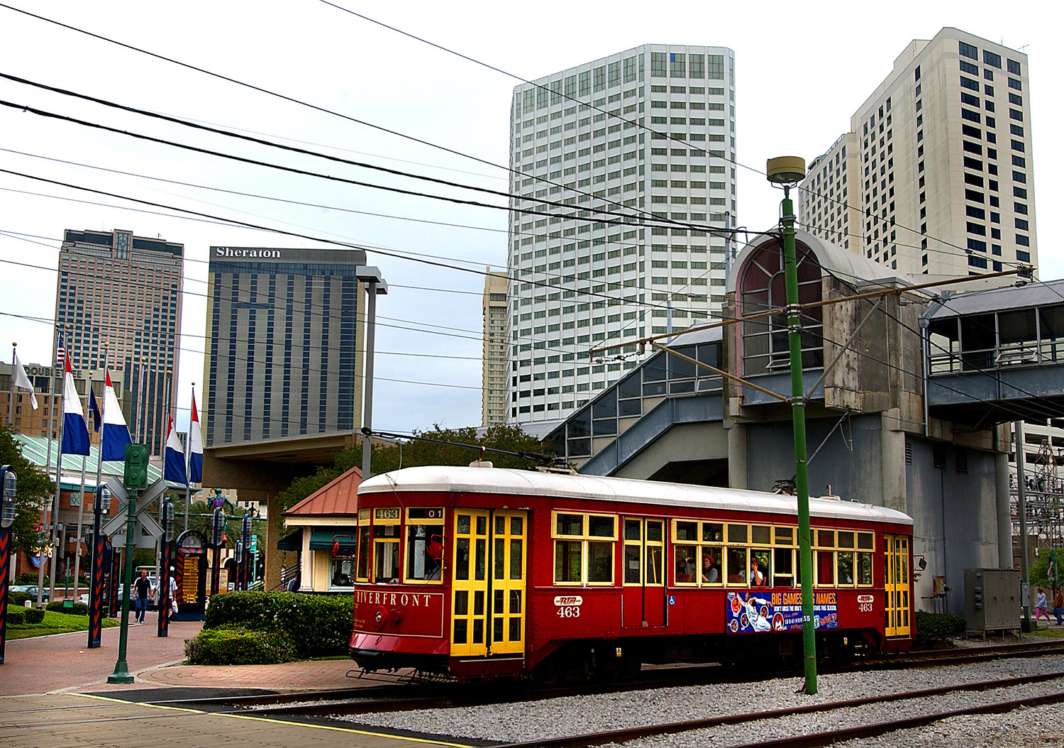 New Orleans: Riverfont streetcar at the foot of Canal Street.